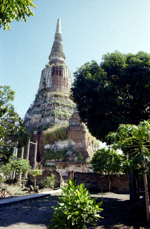 Ayutthaya, Wat Yai Chai Mongkon, 1978